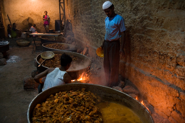 Chicken biryani being prepared for 2000 people in Bidar, India.